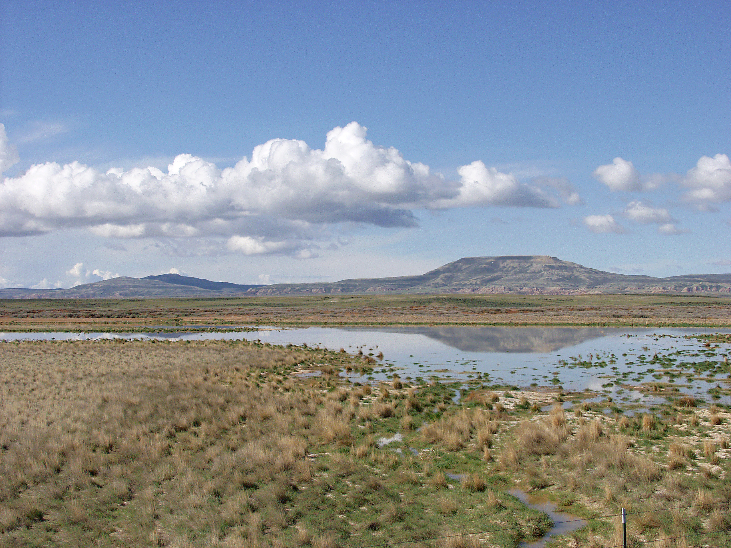 Melting snowpack is the primary source for surface water in Wyoming, such as this emphemeral wetland in the Muddy Creek Watershed of the Red Desert. This stretch of rangeland is typical of the vast expanses of publicly owned rangeland that aerial remote sensing is particularly well-adapted to.